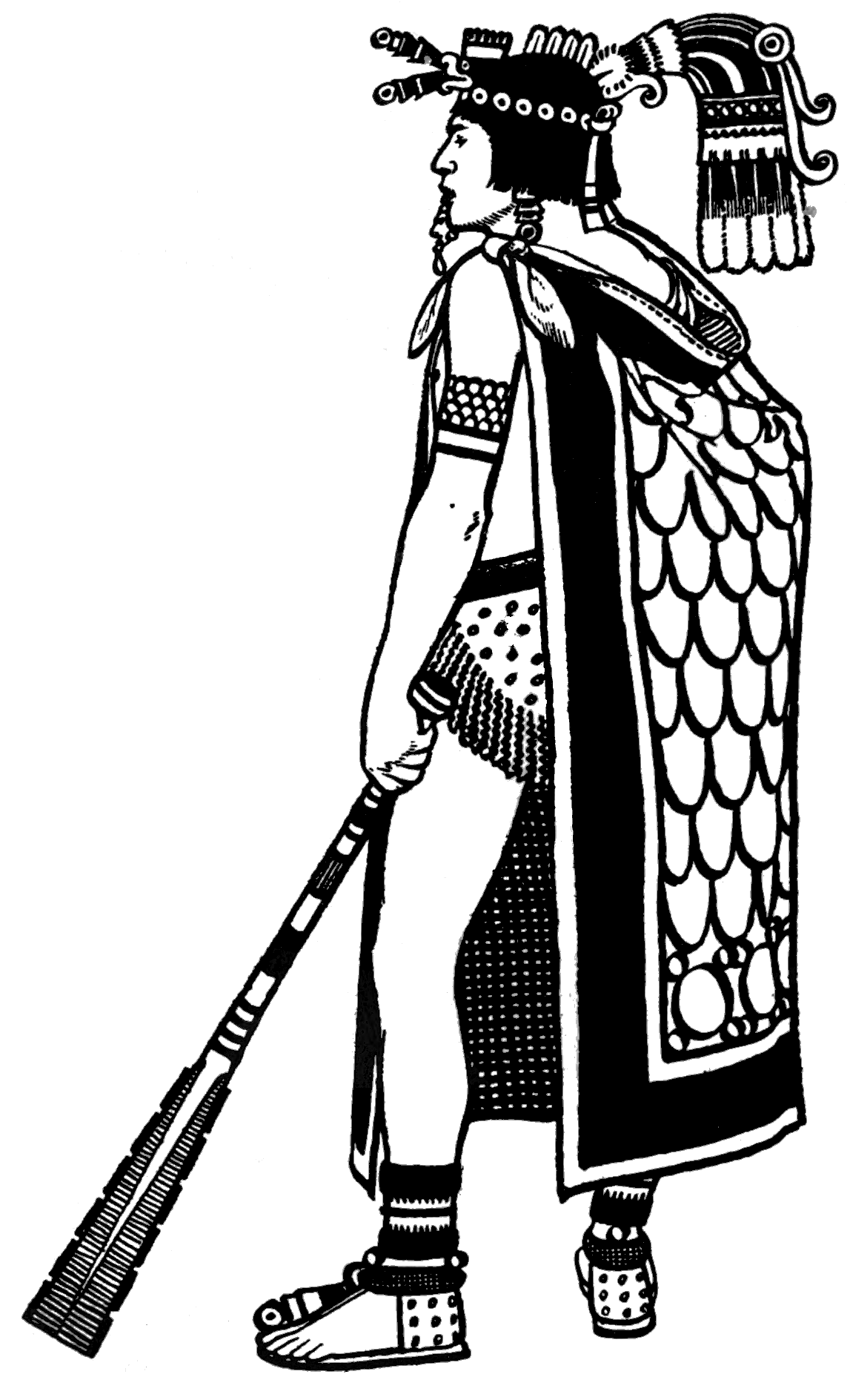 The Prince Ixtlilxochitl